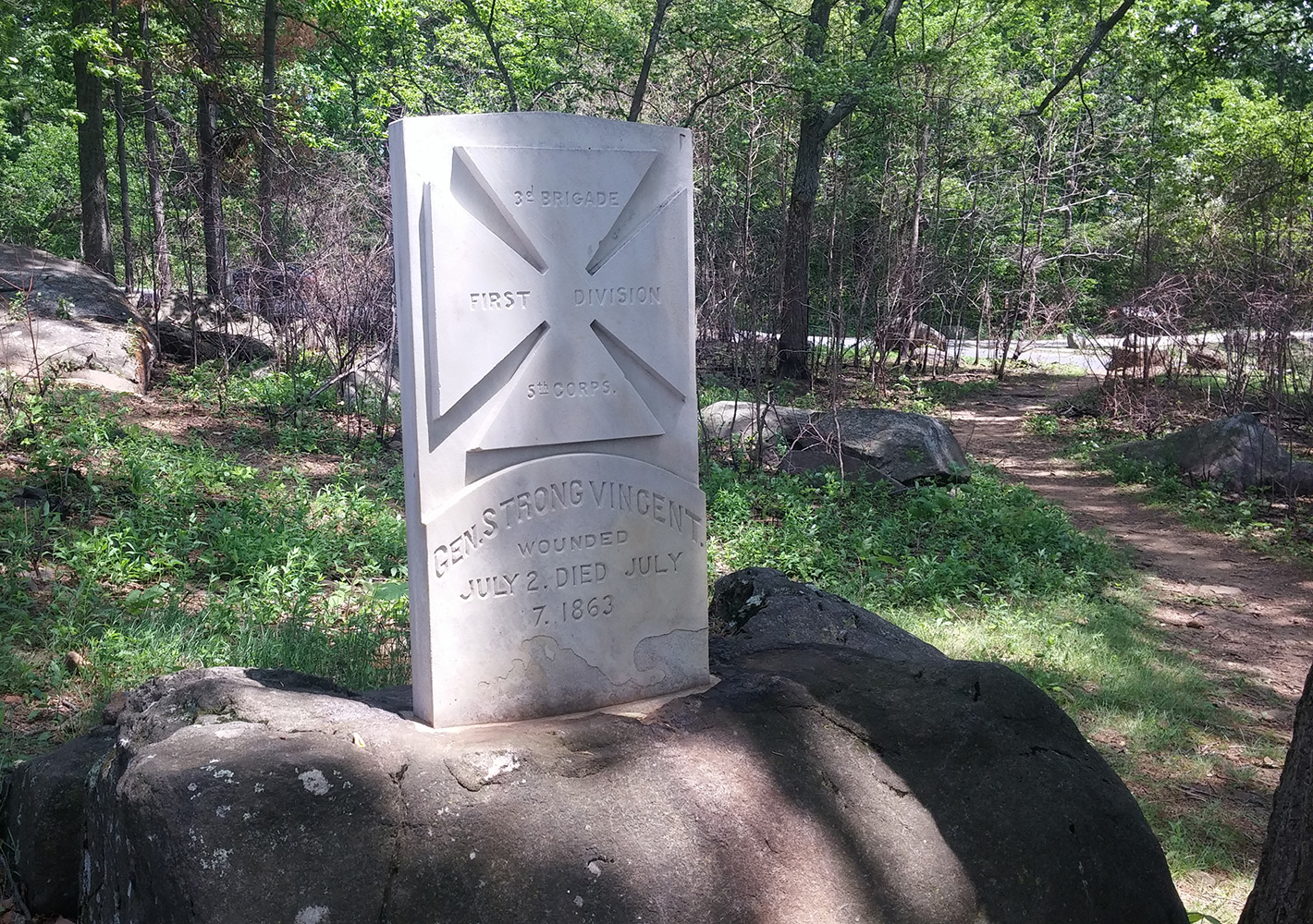 Strong Vincent was wounded here July 2, 1863